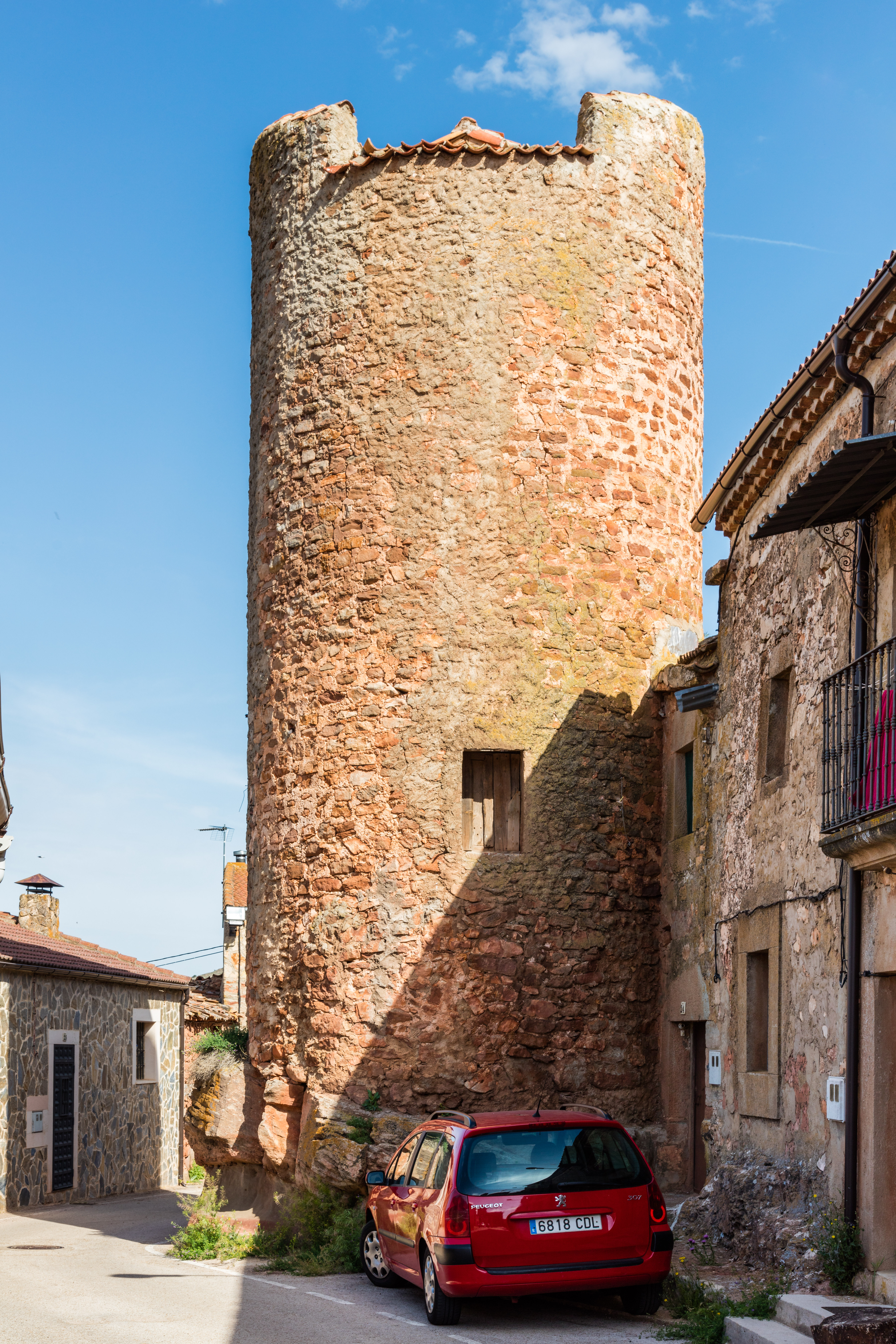 Tower of Montejo de Tiermes, Soria, Spain